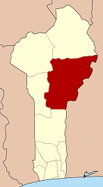 Map of Benin highlighting the department Borgou